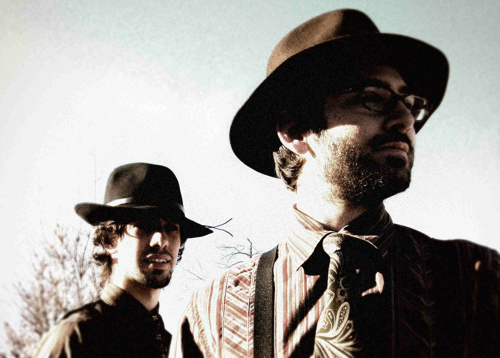 Distribution photograph of Québec rock duo Tracteur Jack.